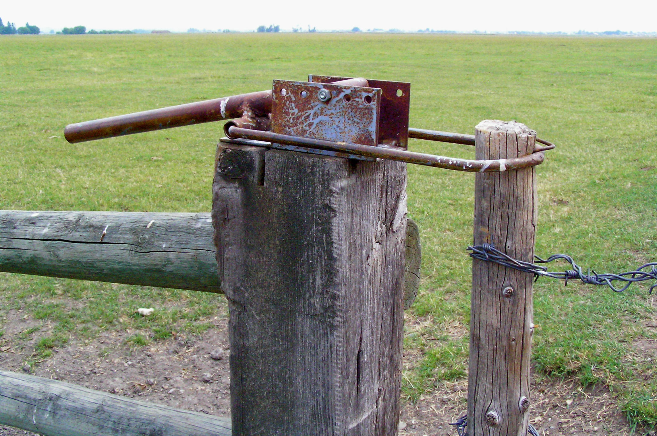 Leverage latch used on wire gates to make them easier to close